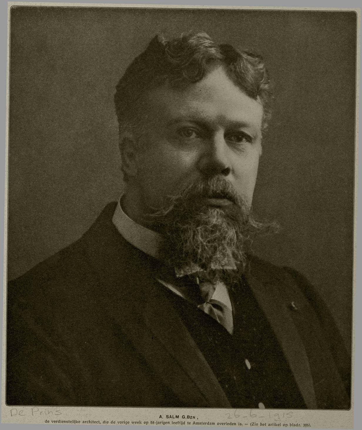 Abraham Salm (1857-1915) Published in: Architectura, vol. 23, nr. 25 (19 June 1915): p. 145. See scan TU Delft.